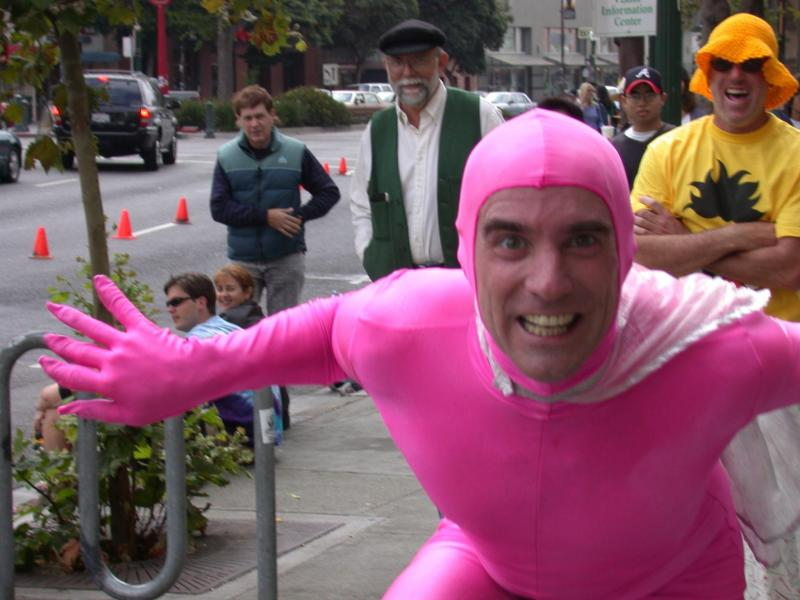 Picture of local Berkeley celebrity, Pink Man. Picture taken by Krista Gettle, Flickr username Lady_K. Source:[1]